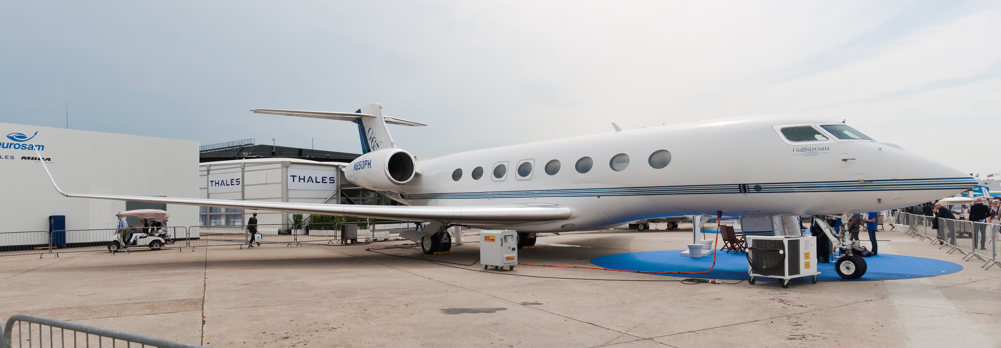 Gulfstream G650 (reg. N650PH, c/n 6013) at Paris Air Show 2013.